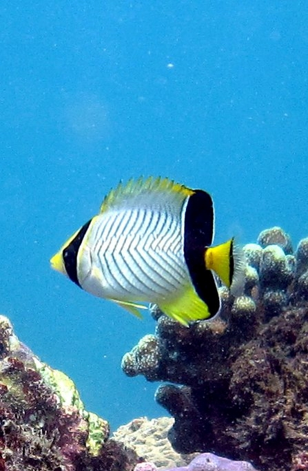 This is the juvenile of Chevron butterflyfish. It shows the color difference comparing with adult. The photo was taken by Vincent C. Chen, one of the regular contributors to EZDive magazine at Pi-Tou park, northeast coast, Taiwan.